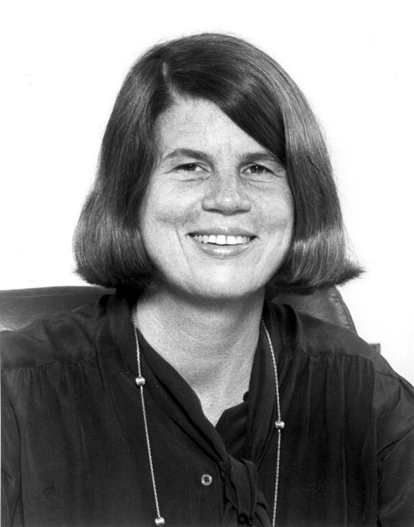 Accompanying note: "Appointed by Gov. Reubin Askew on Jan. 4, 1978. Served for 15 years as Dade County State Attorney before becoming the nation's first woman Attorney General."